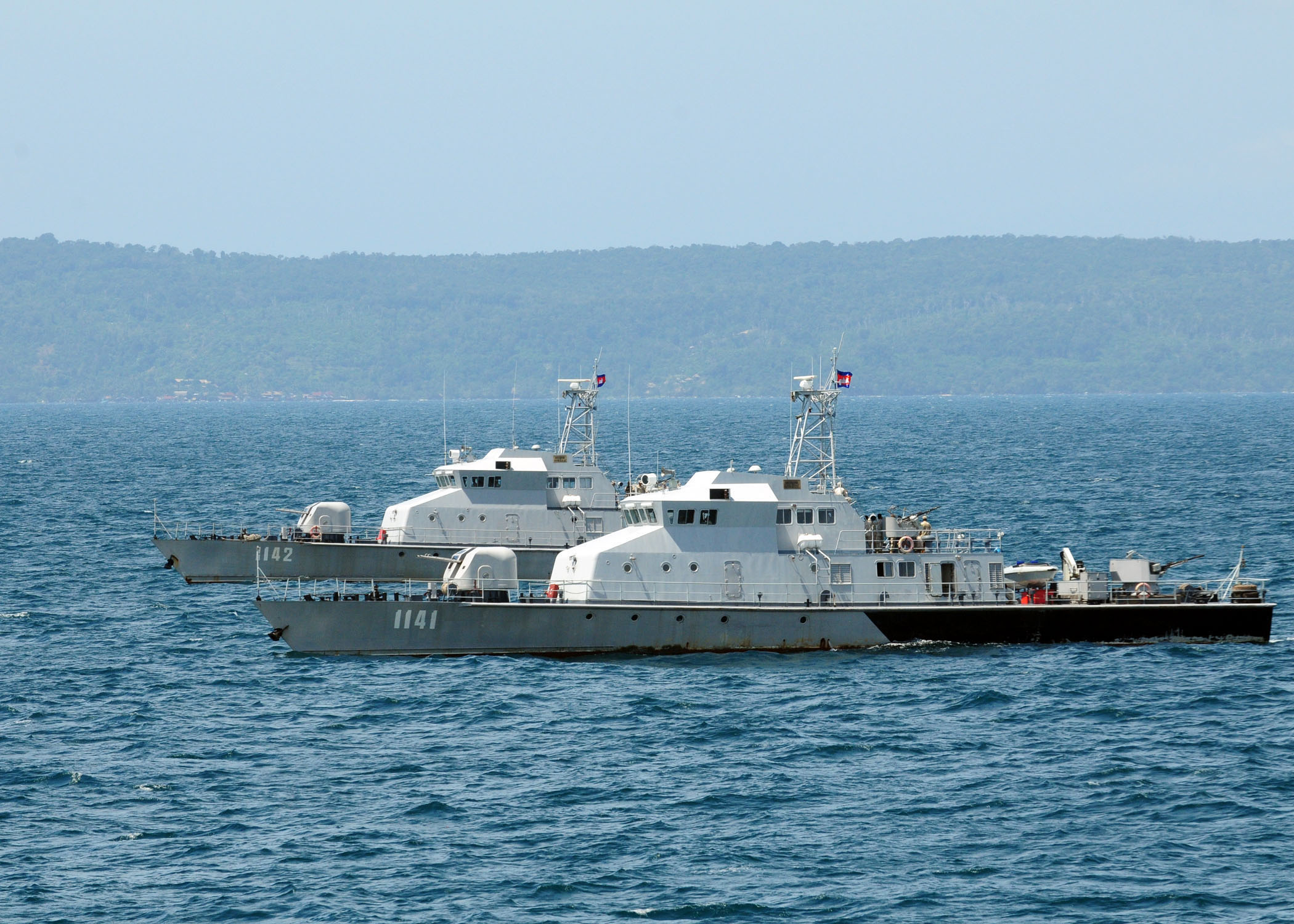 GULF OF THAILAND (Oct. 24, 2012) The Royal Cambodian Navy patrol crafts PC 1141 and PC 1142 underway during the at-sea phase of Cooperation Afloat Readiness and Training (CARAT) Cambodia 2012. CARAT is a series of bilateral military exercises between the U.S. Navy and the armed forces of Bangladesh, Brunei, Cambodia, Indonesia, Malaysia, the Philippines, Singapore, Thailand and Timor Leste. (U.S. Navy photo by Mass Communications Specialist 1st Class Robert Clowney/Released) 121024-N-NJ145-024 Join the conversation navylive.dodlive.mil